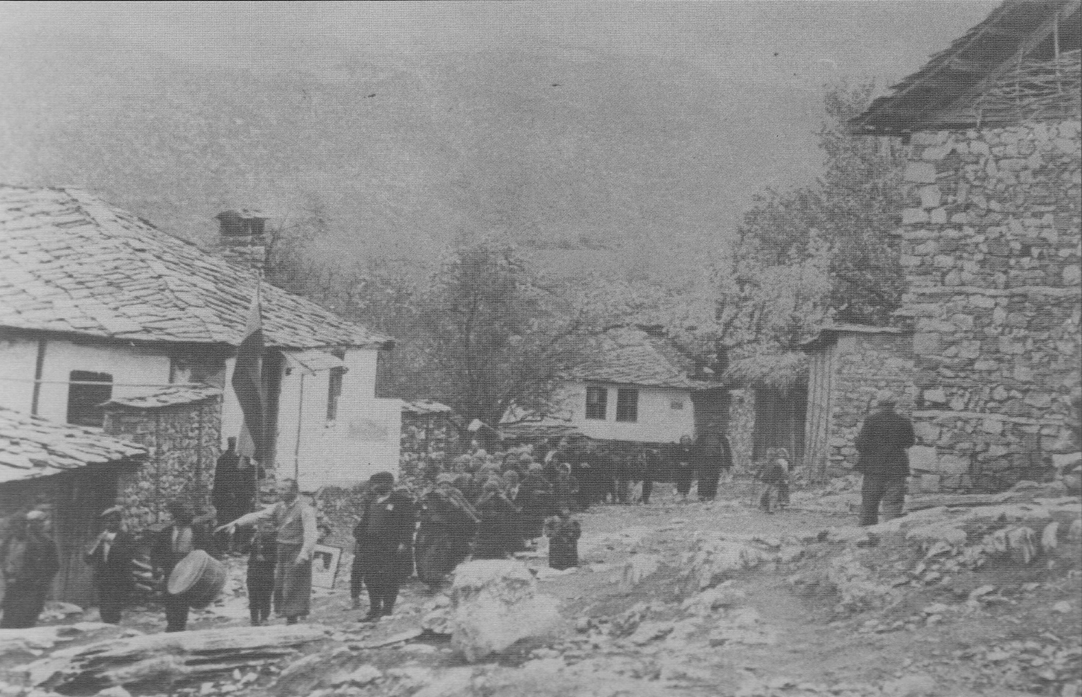 Celebrating the Day of the Child in the village of Debren - 1913